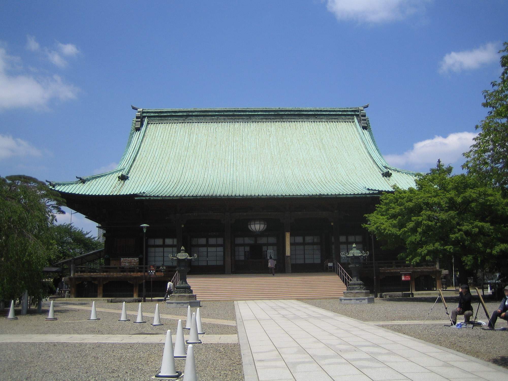 Gokoku-ji Temple in Bunkyo, Tokyo, Japan.